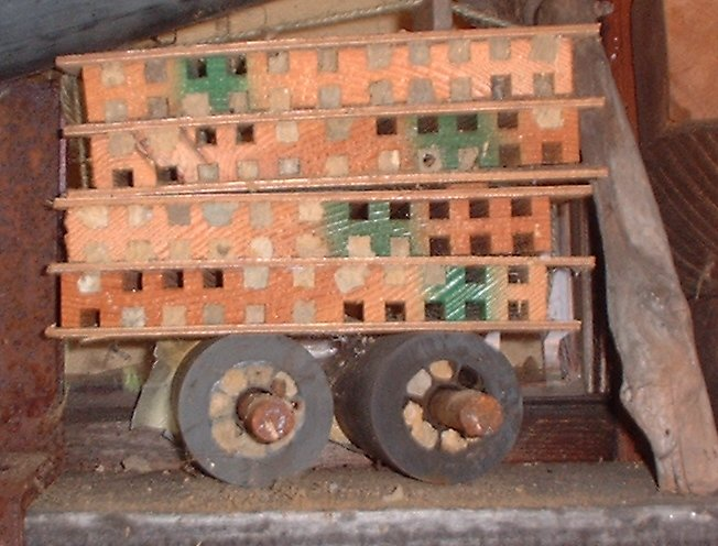 Homemade Mason bee condos